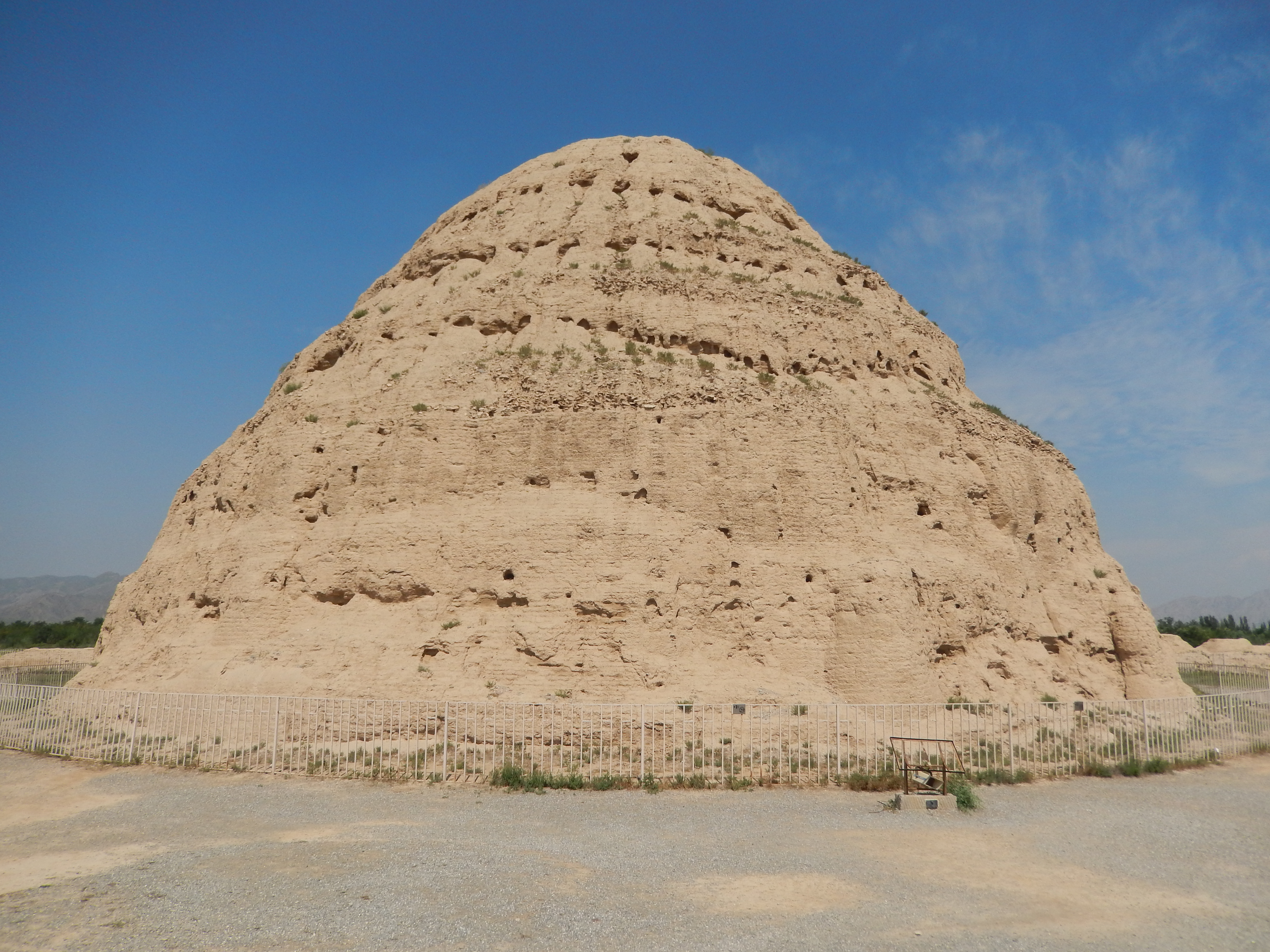 Western Xia imperial tombs, Tomb No. 3, Yinchuan, Ningxia, China.